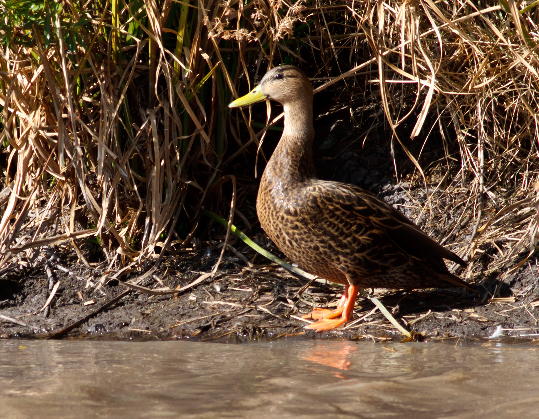 A Mexican Duck (either a subspecies of Mallard or a separate species, depending on which reference you consult). This is likely a female; separation of sexes is difficult. Photo taken at El Charco de Ingenio, San Miguel de Allende, Guanajuato, Mexico